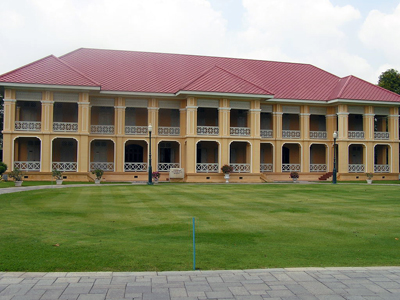 The nine-chamber Mansion within Bang Pa-In Palace, Ayutthaya, Thailand